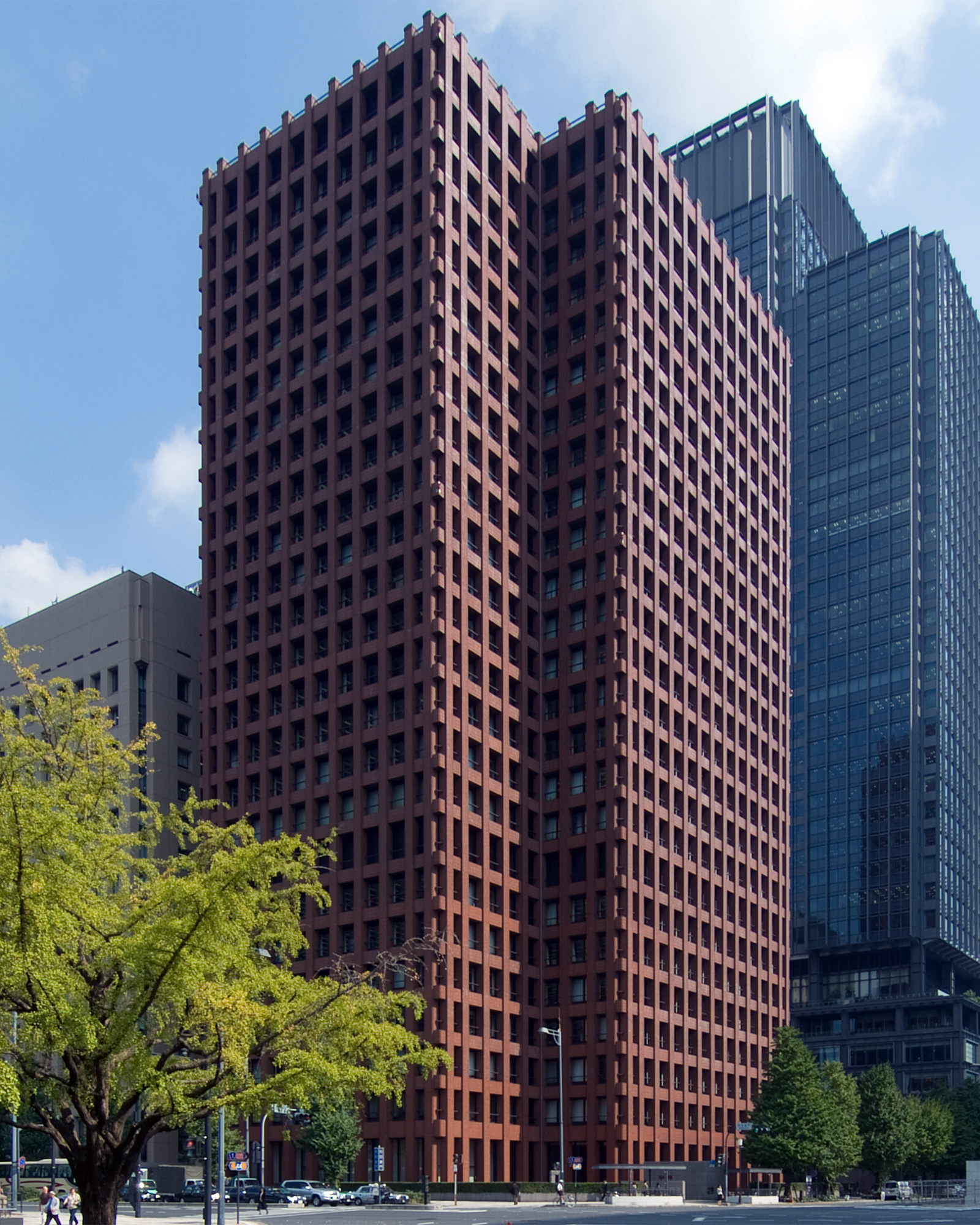 Tokio Marine & Nichido Fire Insurance Head Office, Marunouchi Tokyo Japan, Design by Kunio Maekawa in 1974.